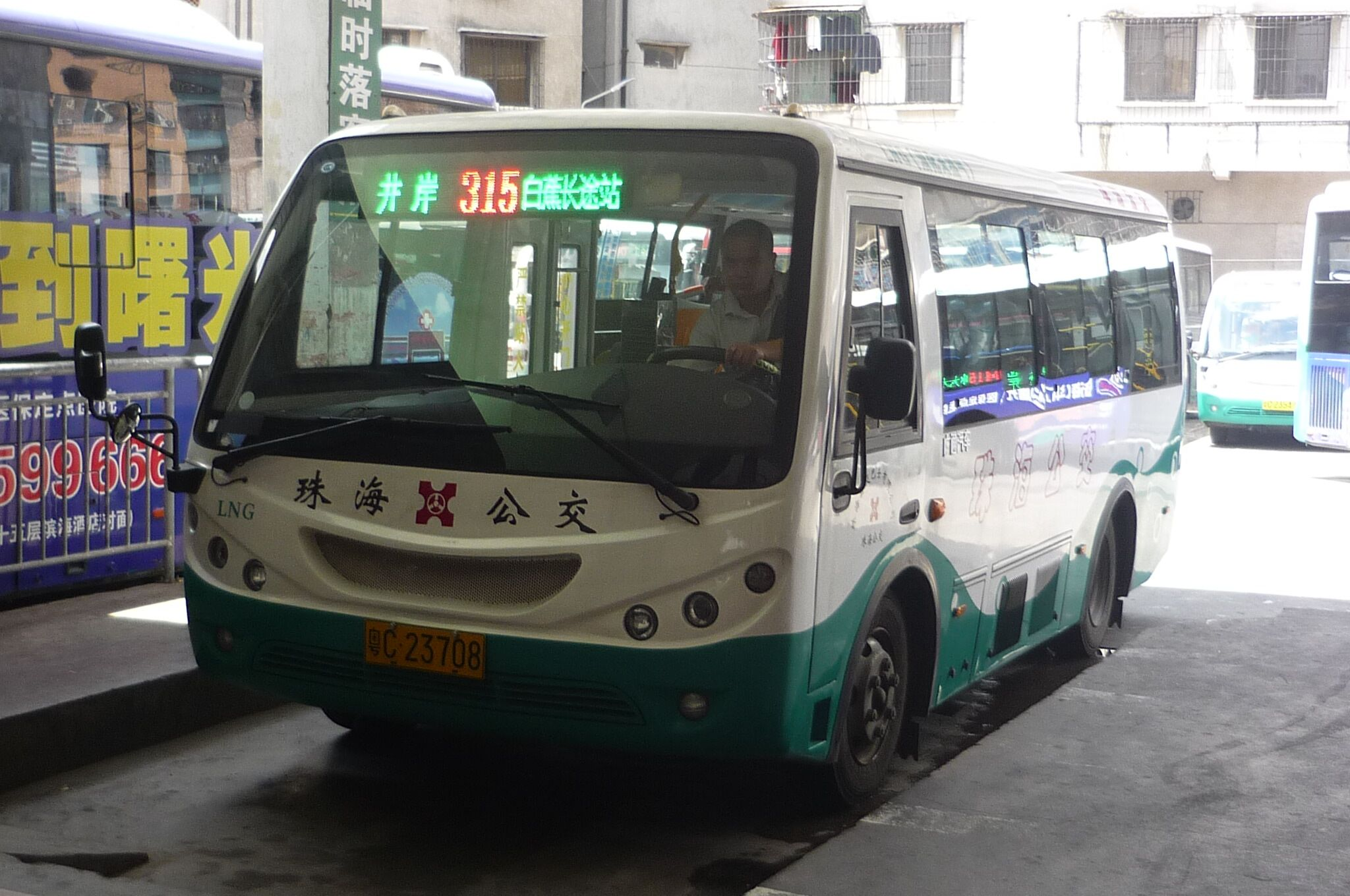 Zhuhai Bus Route 315